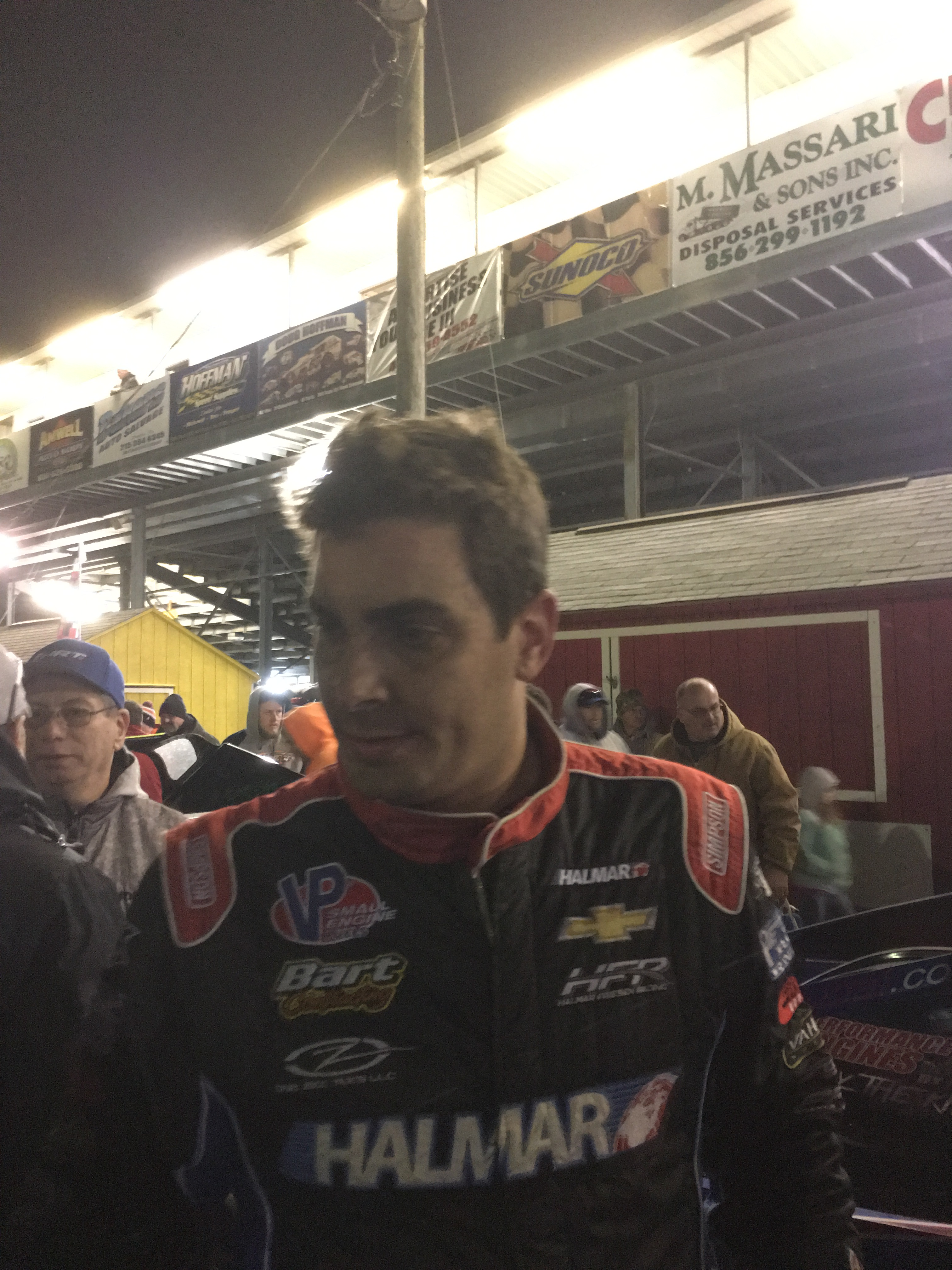 Stewart Friesen greeting fans after a modified race at Bridgeport Speedway in Bridgeport, New Jersey